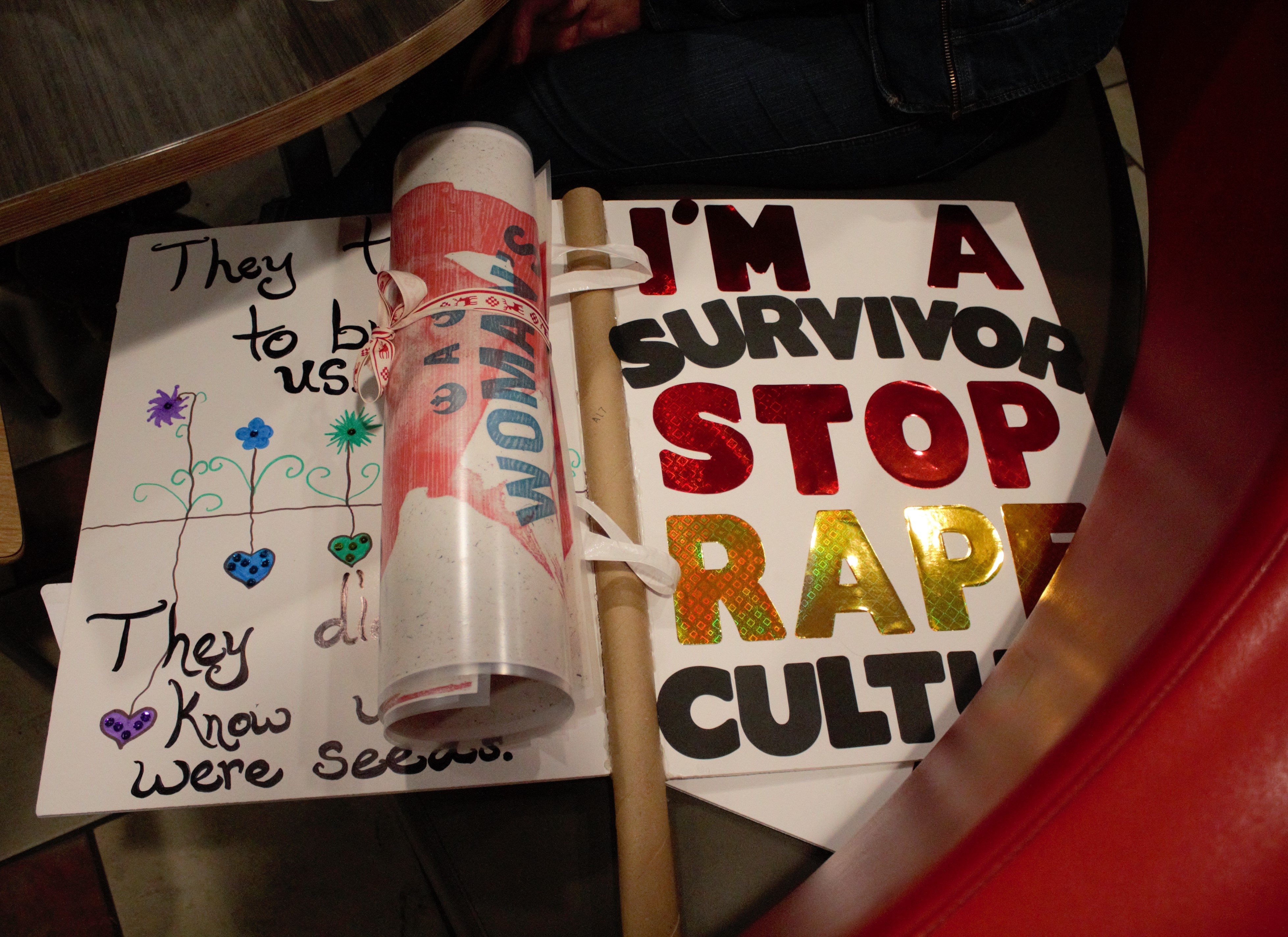 Before Women's March inside McDonald's at Southwest Federal Center at 400 C Street, SW, Washington DC on Saturday morning, 21 January 2017 by Elvert Barnes Photography Follow Women's March at BEFORE J21 WOMEN'S MARCH 2017 Project Elvert Barnes Saturday, 21 January 2017 WOMEN'S MARCH DC docu-project at